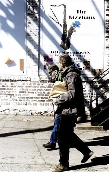 William S. Burroughs and James Grauerholz in the alley behind the Jazzhaus in Lawrence, Kansas (1996). Photo by Gary Mark Smith.